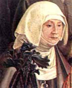 Detail showing Leonor of Aragon, Queen of Portugal